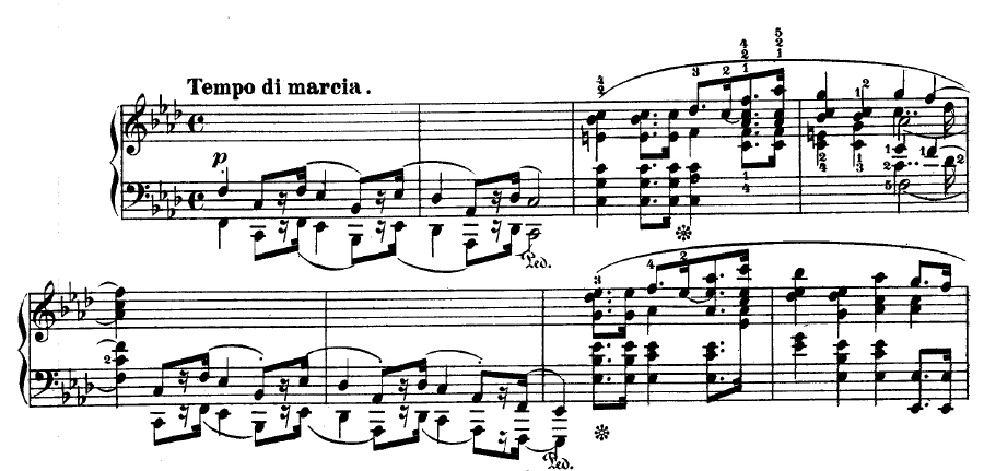 Opening bars of Fantaisie op.49 by Frederic Chopin